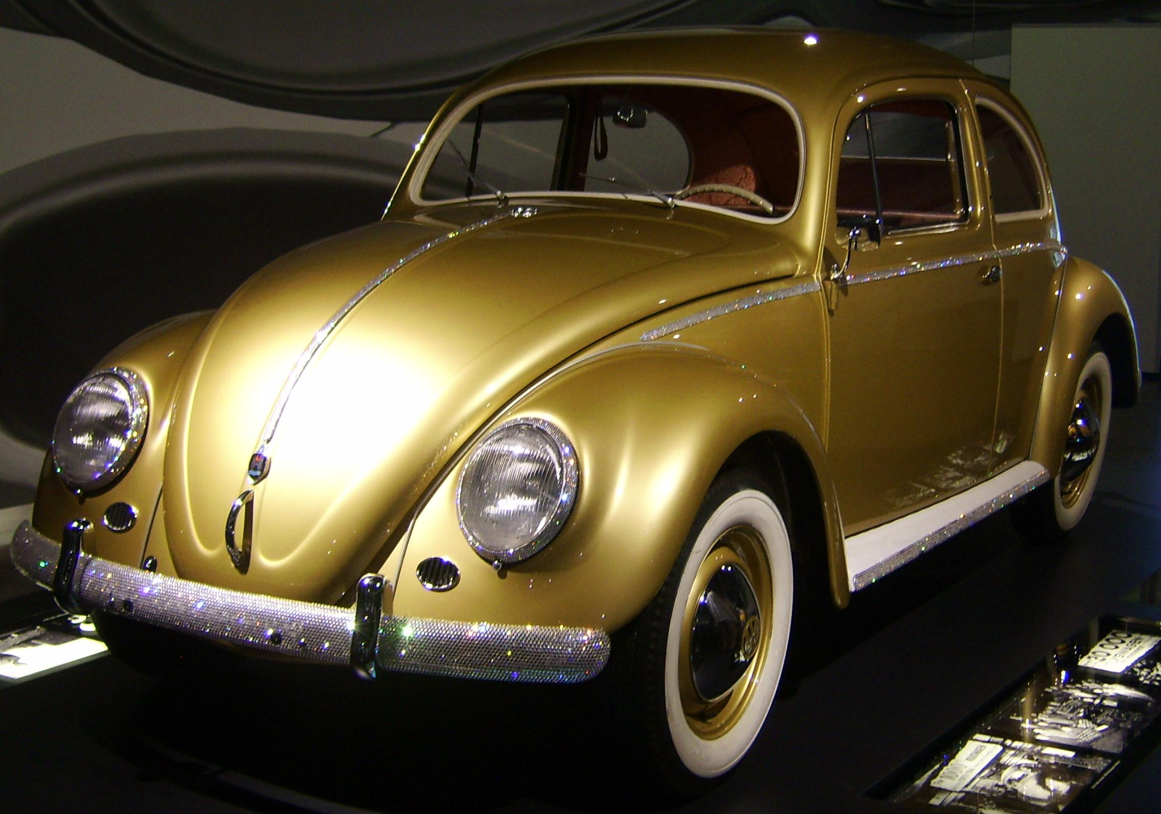 The millionth VW Volkswagen, all chrome parts are loaded with edged glass beads